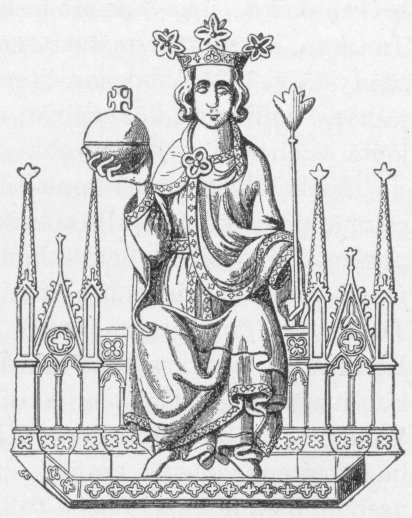 Magnus Ericson (1316–1374), King of Sweden